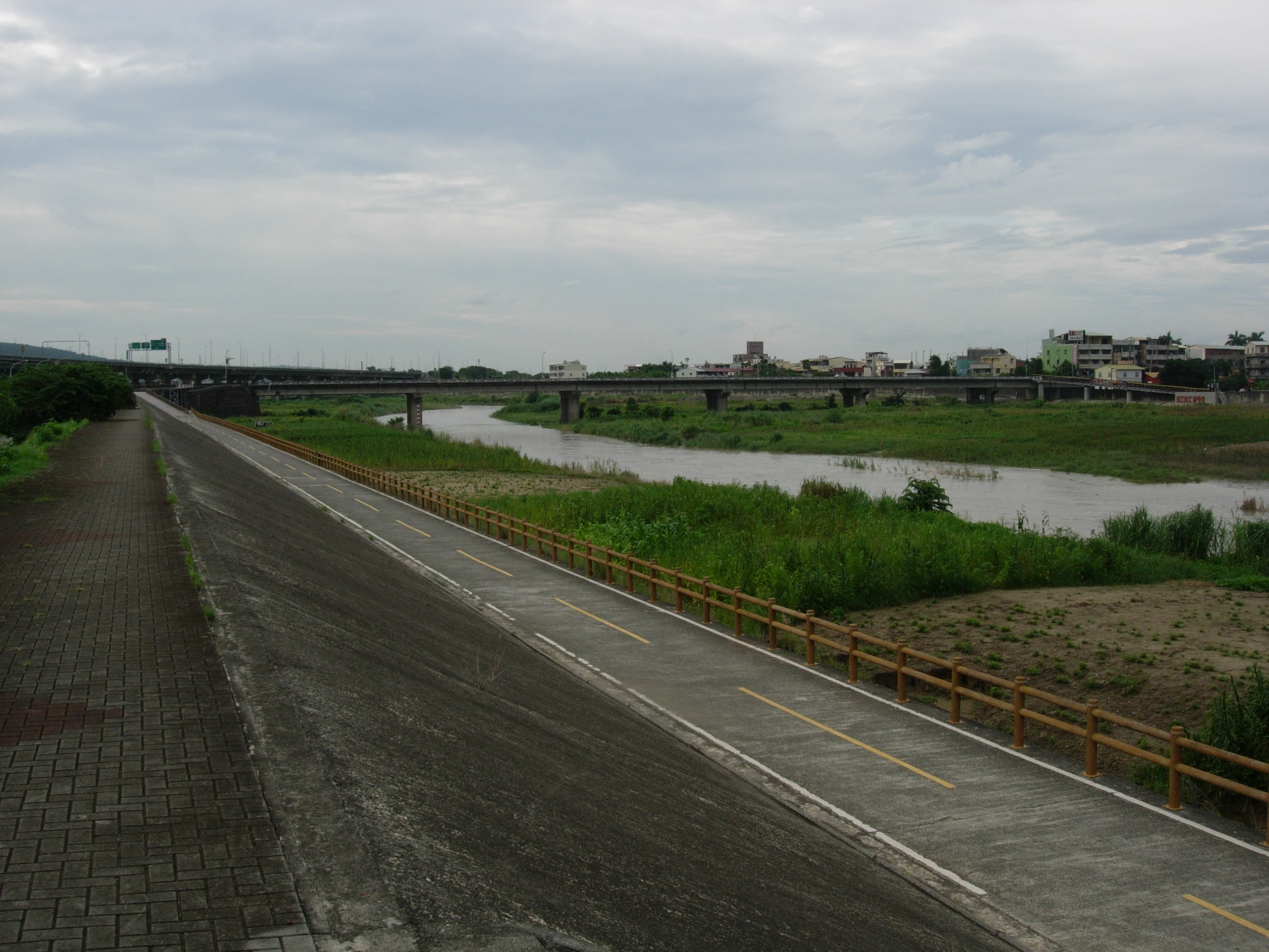 Nantou City Nangang Bridge